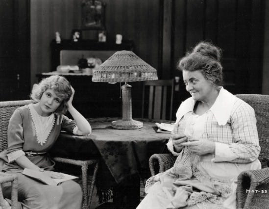 Marguerite Clark (left) and Aggie Herring in the American film A Girl Named Mary (1919) - cropped screenshot